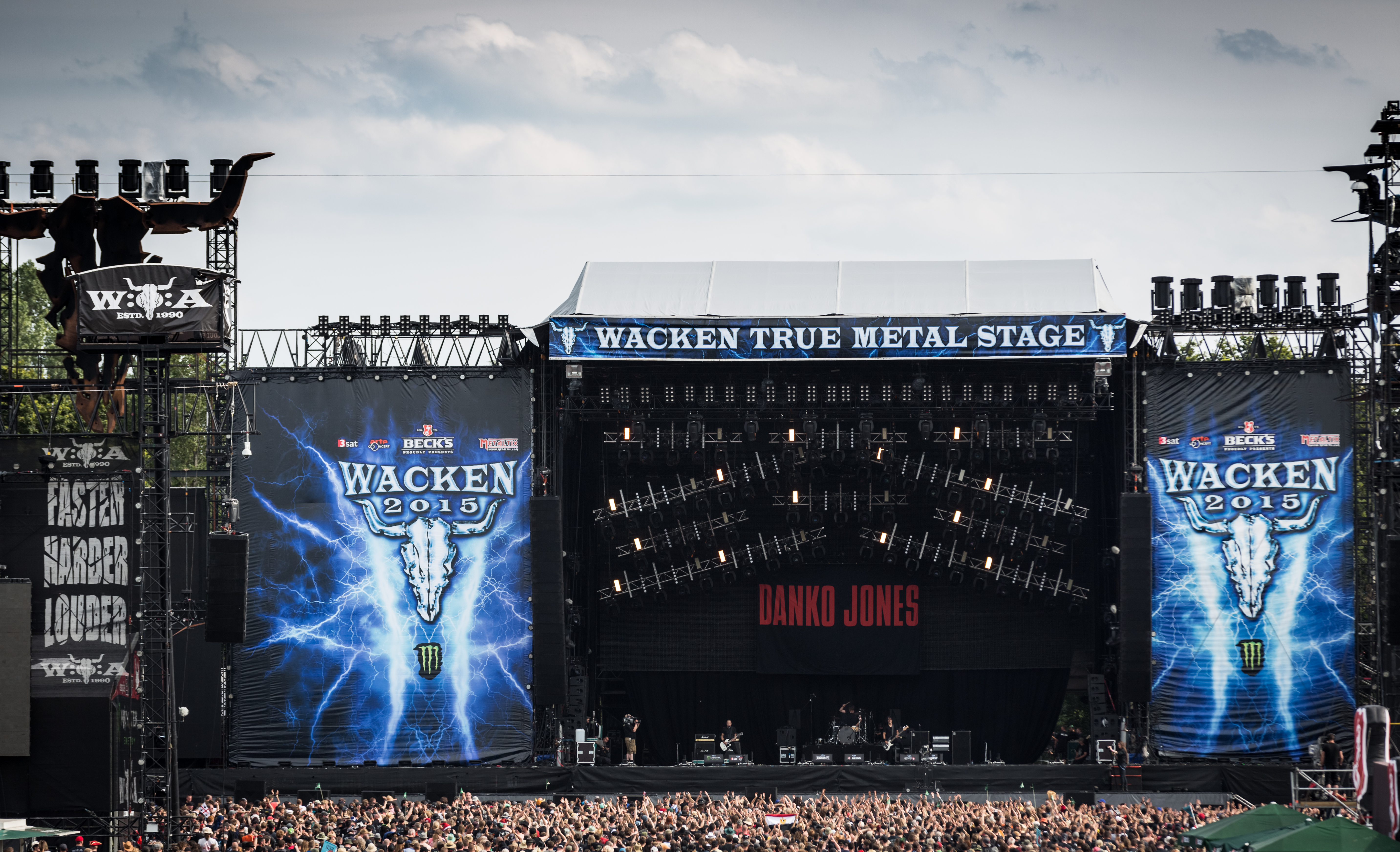 Danko Jones - Wacken Open Air 2015